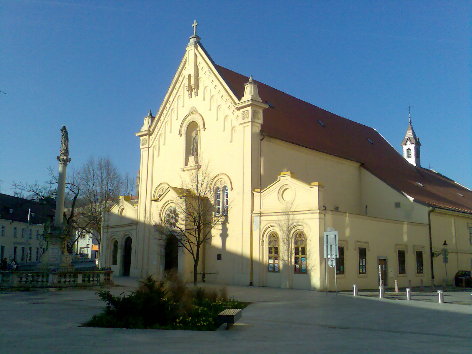 This medium shows the protected monument with the number 101-169/2 in the Slovak Republic.